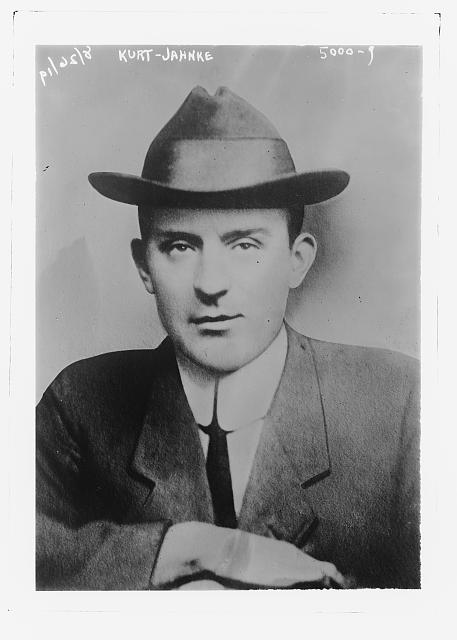 Kurt Jahnke, a World War I Era Spy in charge of sabotage and information gathering in the Western Half of the US.